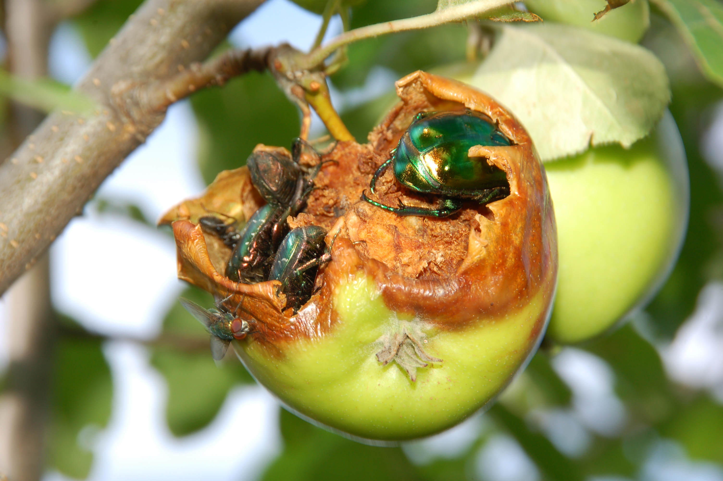 Protaetia aeruginosa, Croatia, Istria, Brseč 15 km south Lovran